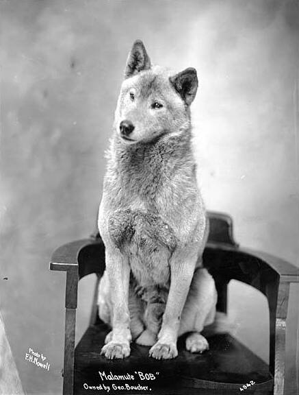 Caption on image: Malamute "Bob" owned by Geo. Boucher. Photo by F.H. Nowell, 4942 Subjects (LCTGM): Bob (Dog); Dogs--Alaska Subjects (LCSH): Alaskan Malamute--Alaska